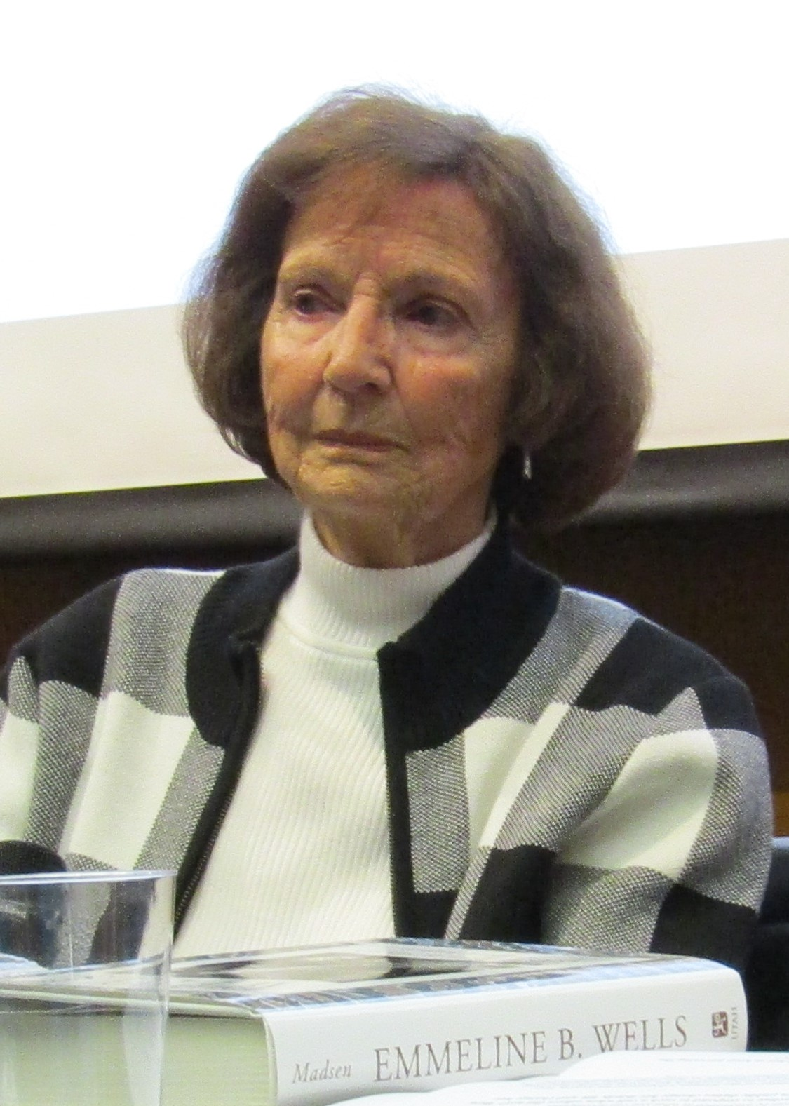 LDS historian Carol Cornwall Madsen at a panel discussion about her book Emmeline B. Wells: An Intimate History.